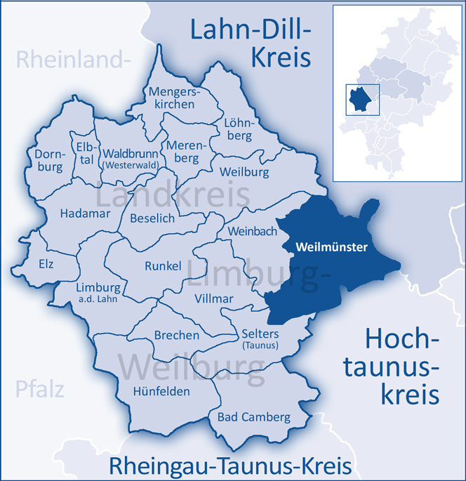 The map shows a district in the area of Limburg-Weilburg